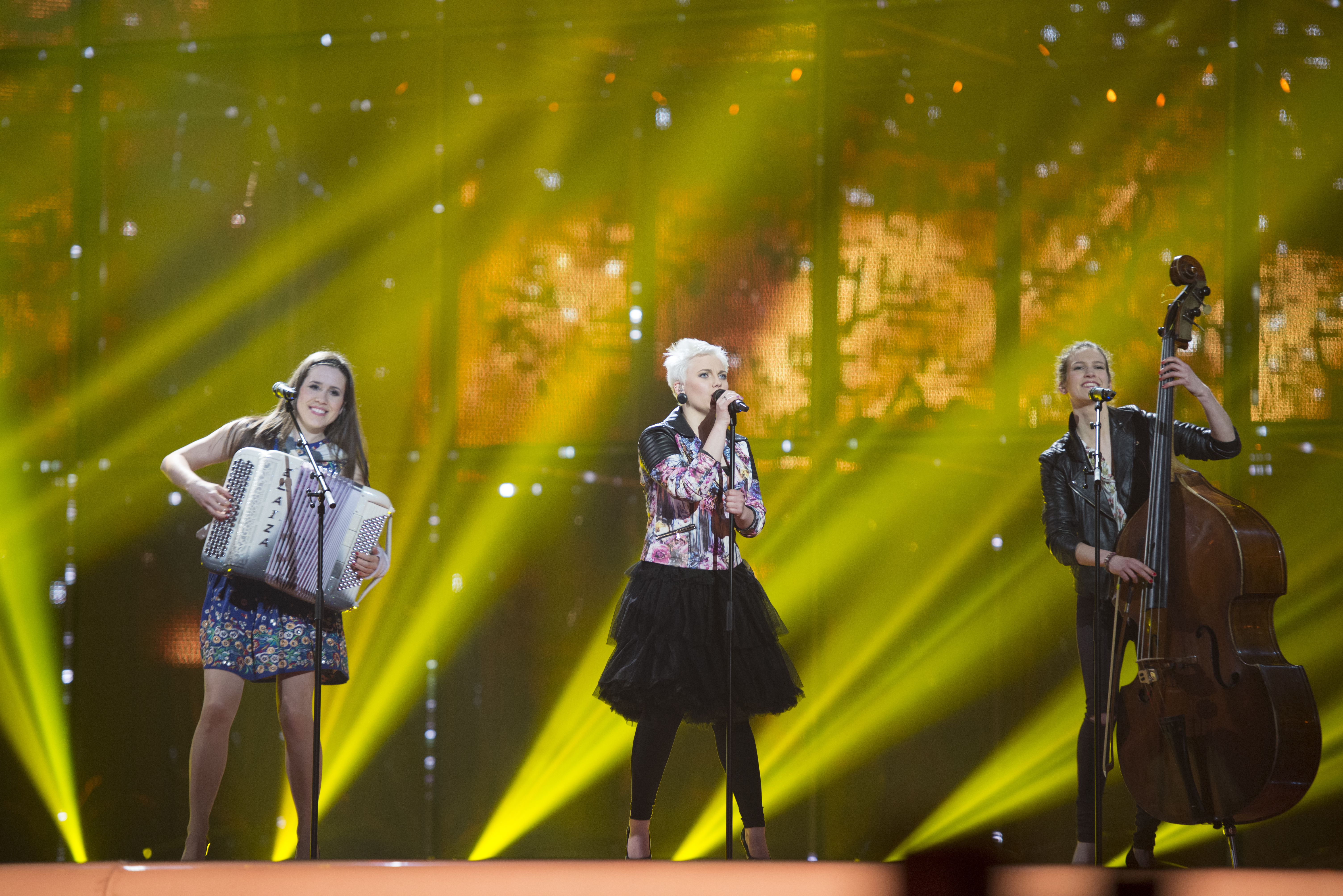 Elaiza representing Germany with the song "Is It Right" during the first dress rehearsal of the final of the Eurovision Song Contest 2014 Copenhagen. (Help translate this text)